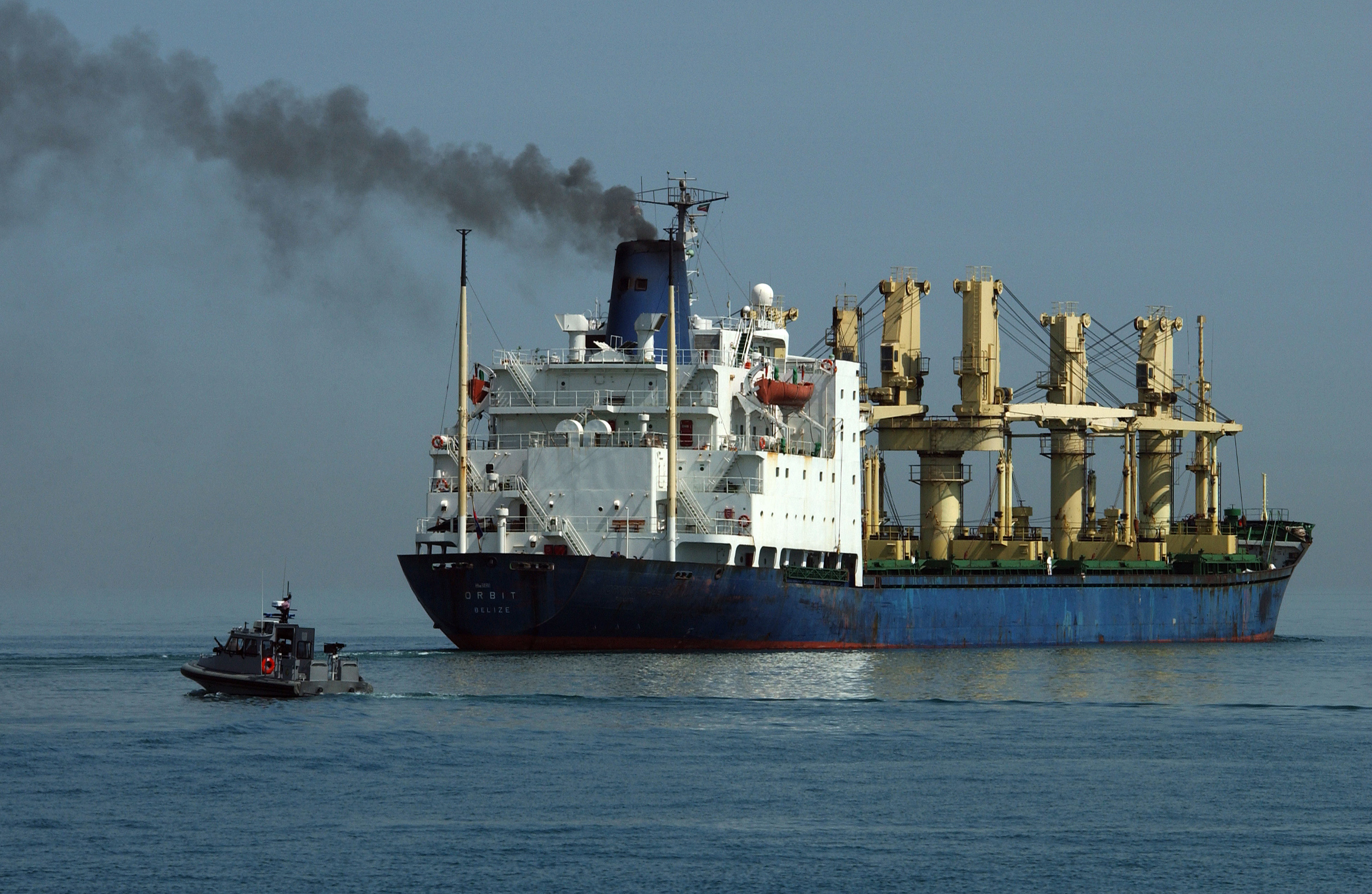 A Navy patrol boat from Inshore Boat Unit 24 escorts a ship out of the Port of Ash Shuaiba, Kuwait, on Feb. 24, 2005. The patrol boat is assigned to Naval Coastal Warfare Squadron 25.